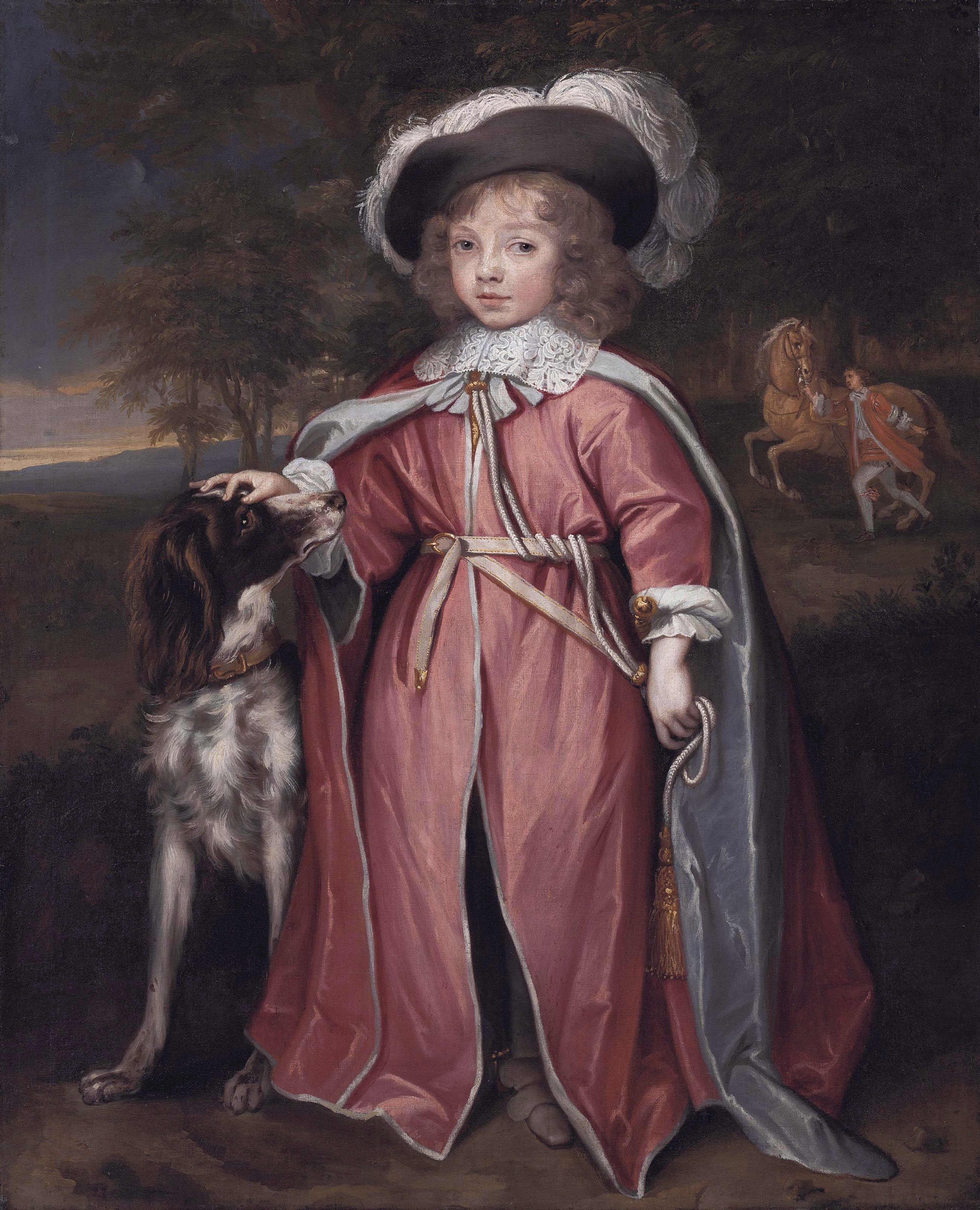 Possibly Philip, 7th Earl of Pembroke (1652-1683) in the robes of the Order of the Bath, with his hound, in a wooded landscape, a horse and equerry beyond